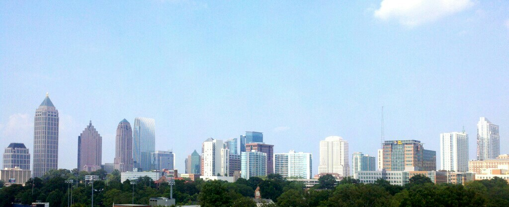 Midtown Atlanta from Georgia Tech